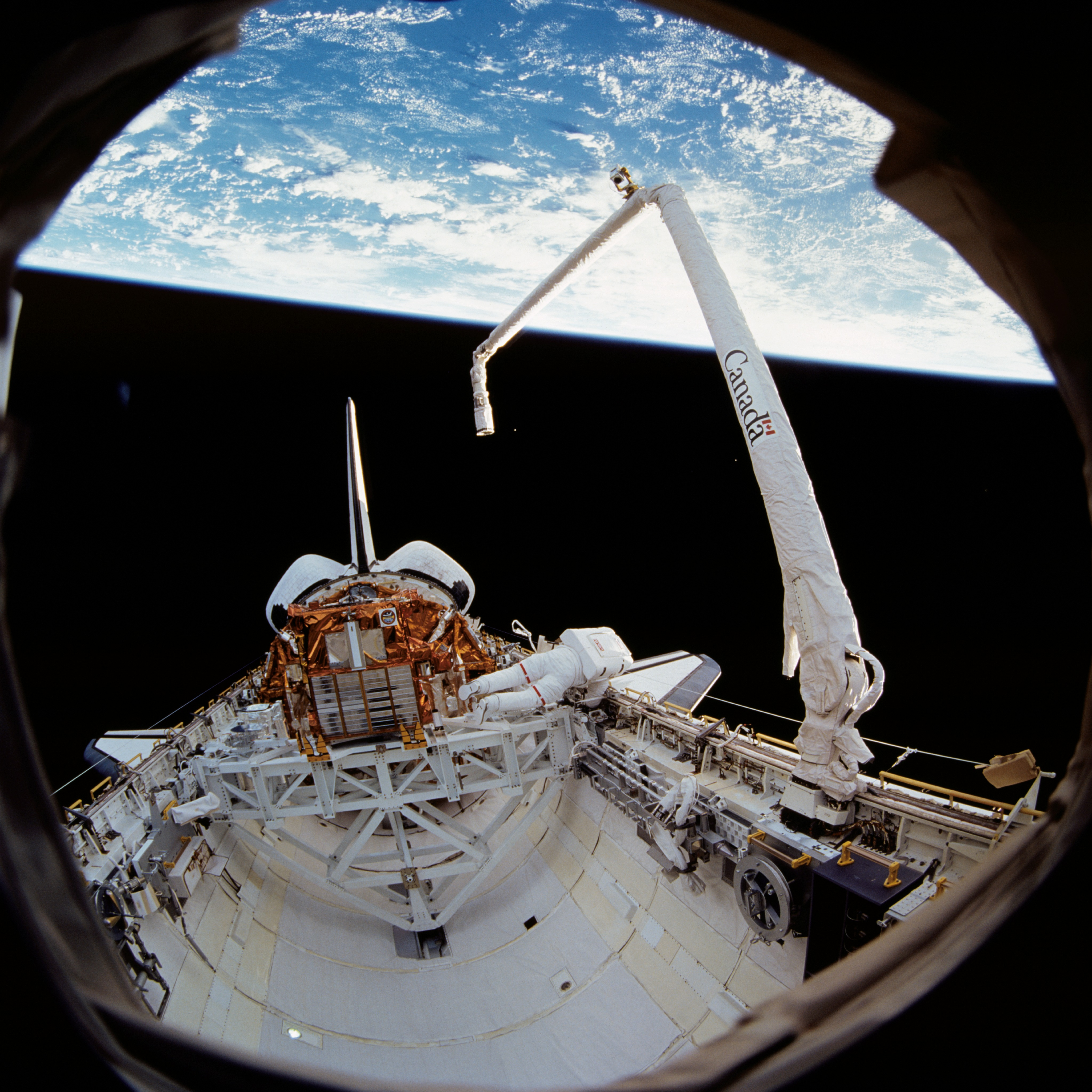 Winston Scott works in the payload bay of Endeavour during mission STS-72.